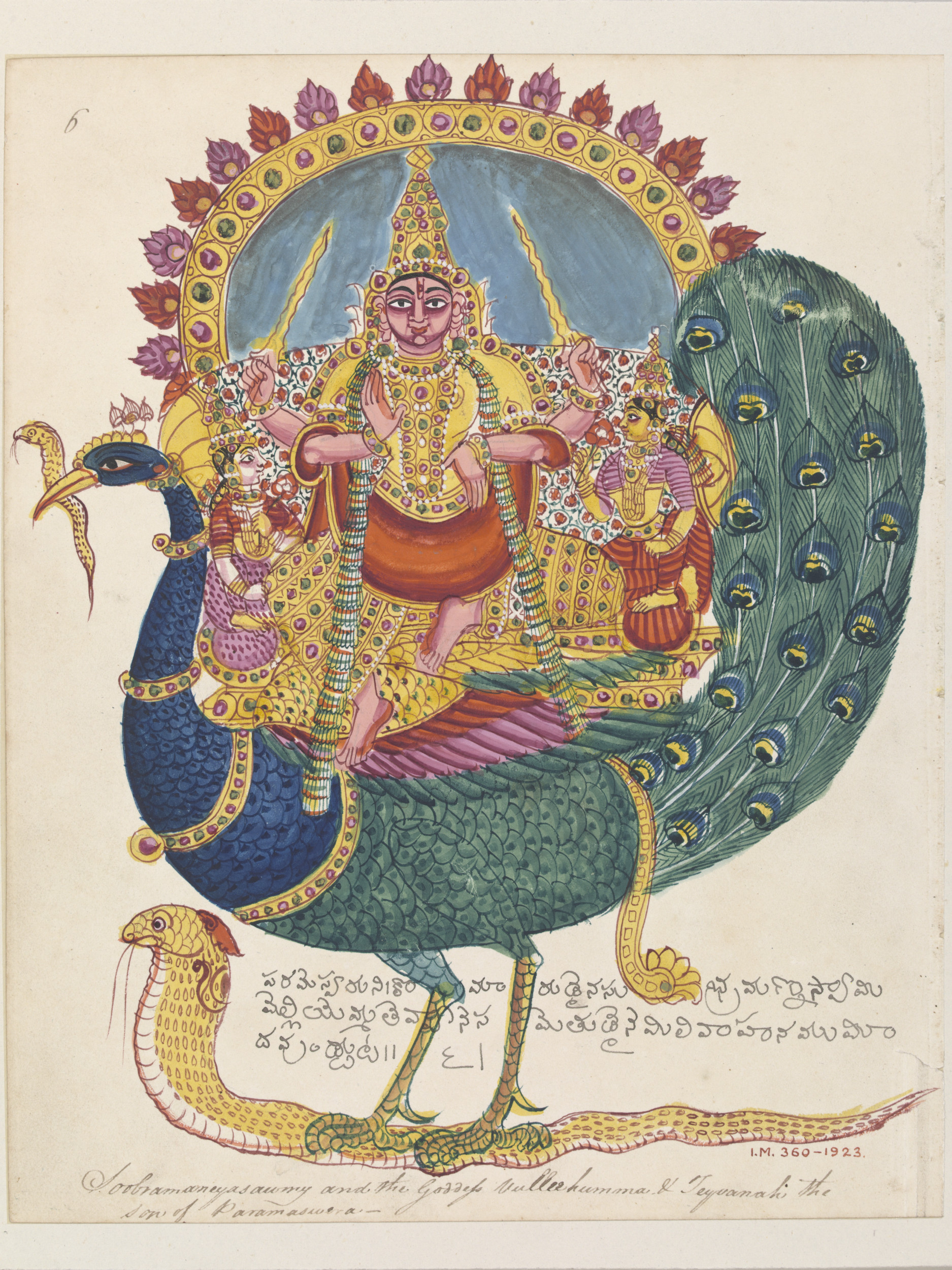 The pictures made by Indian artists for the British in India are called Company paintings. This example is from a collection of 100 such paintings. They show Hindu deities and their vehicles, the Guardians of the Quarters, the avataras (incarnations) of Vishnu, and the story of Krishna. The subject matter is unusual one for Company Paintings, which generally showed more popular themes such as occupations and costume. An Englishman with scholarly interests must have commissioned this one.